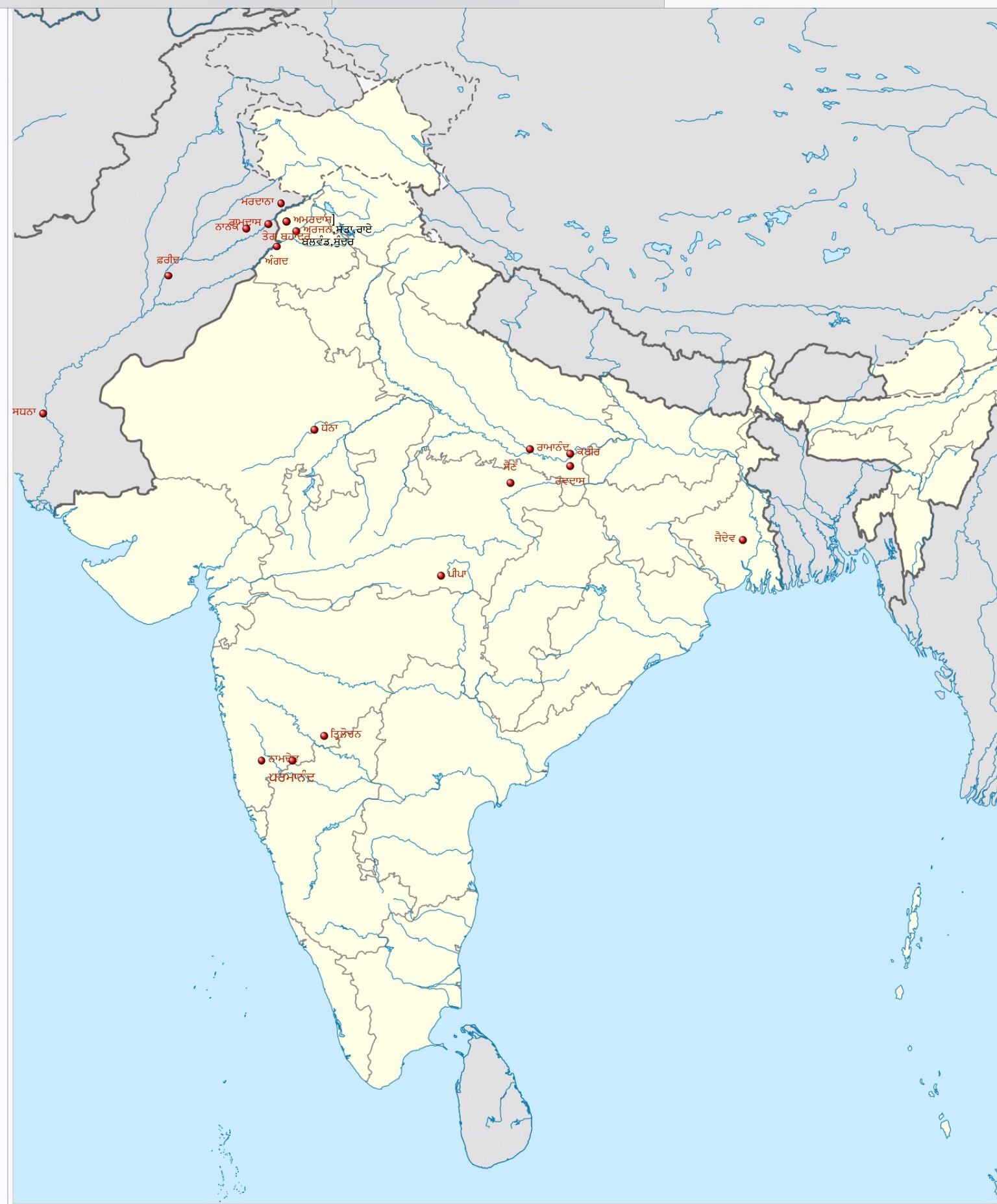 This map image shows distribution of writers of Guru Granth Sahib all over India and Pakistanਪੰਜਾਬੀ: ਗੁਰੂ ਗ੍ਰੰਥ ਸਾਹਿਬ ਦੇ ਬਾਣੀਕਾਰਾਂ ਗੁਰੂ ਸਾਹਿਬਾਨ,ਭਗਤਾਂ,ਭੱਟਾਂ ਆਦਿ ਦੇ ਜਨਮ-ਸਥਾਨਾਂ ਦਾ ਨਕਸ਼ਾ